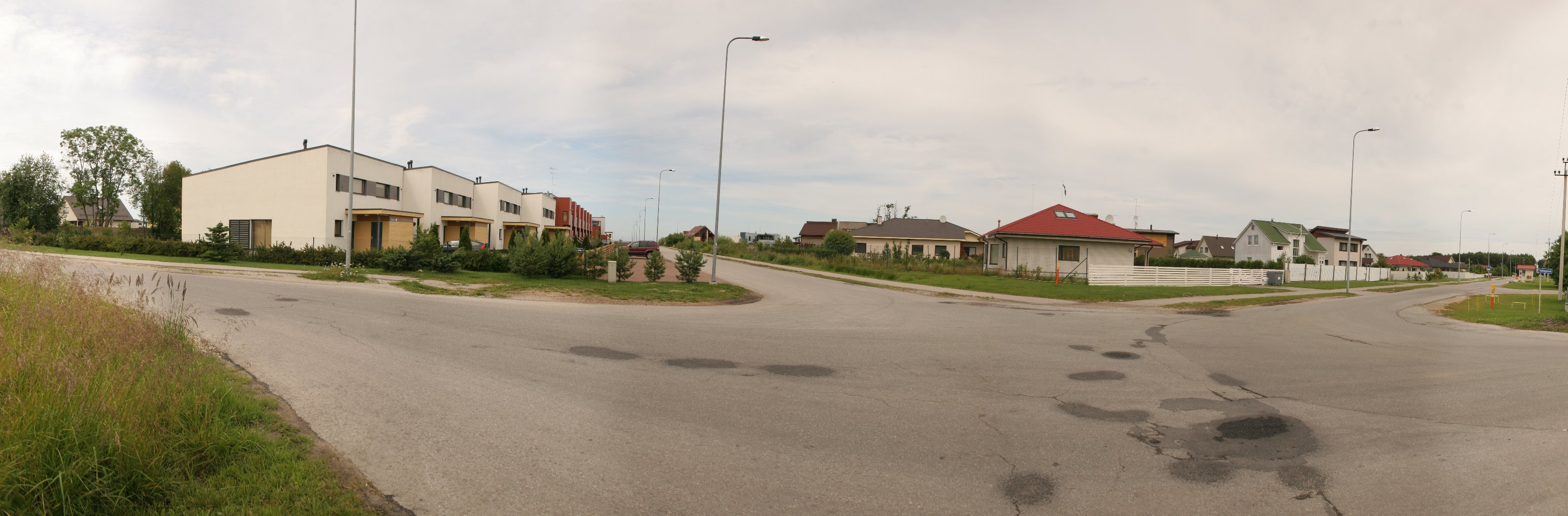 Made up of multiple photos that are stitched together by Hugin.